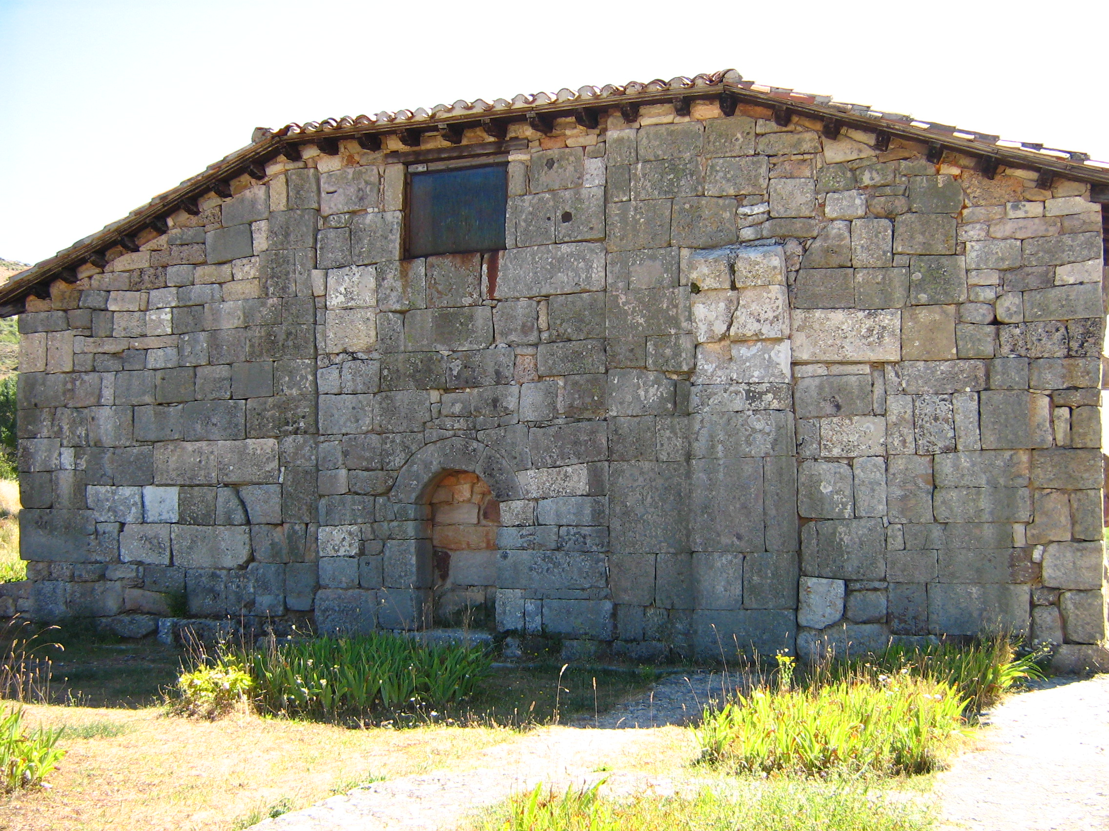 A front view of the church of Santa Maria de Lara